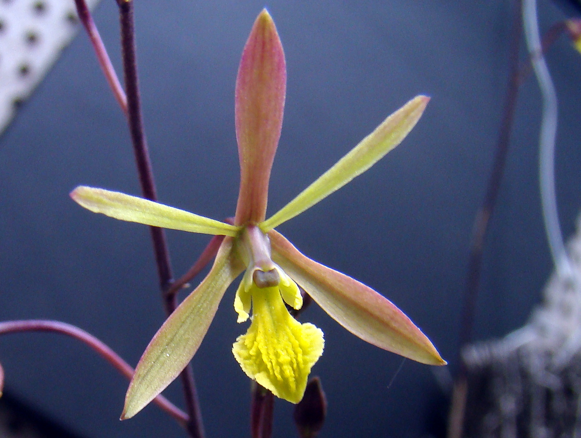 Plant from Espírito Santo State (Brazil)